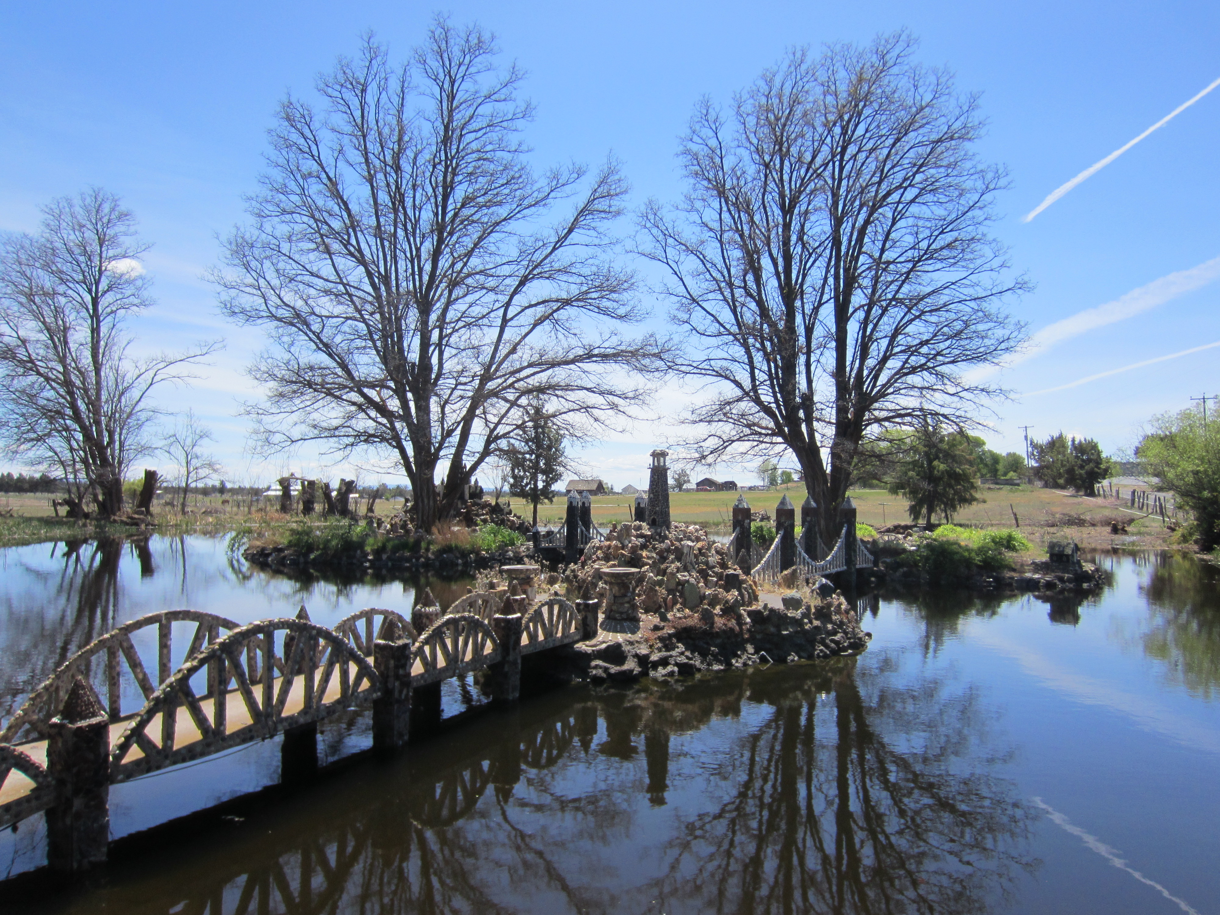 Petersen Rock Garden, Central Oregon, United States (2013)